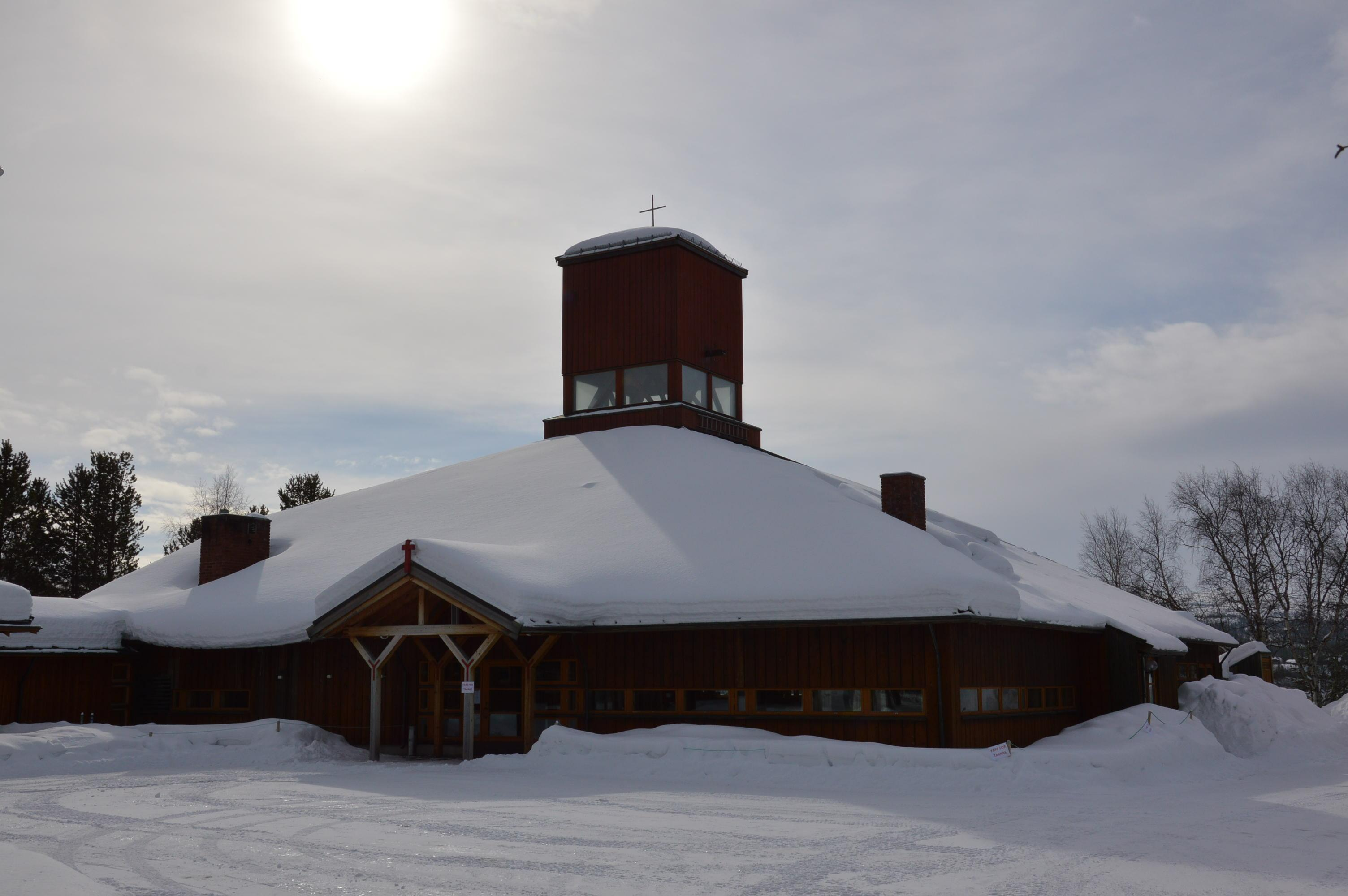 Karasjok Church in Karasjok/Kárášjohka in Finnmark, Norway/Sápmi